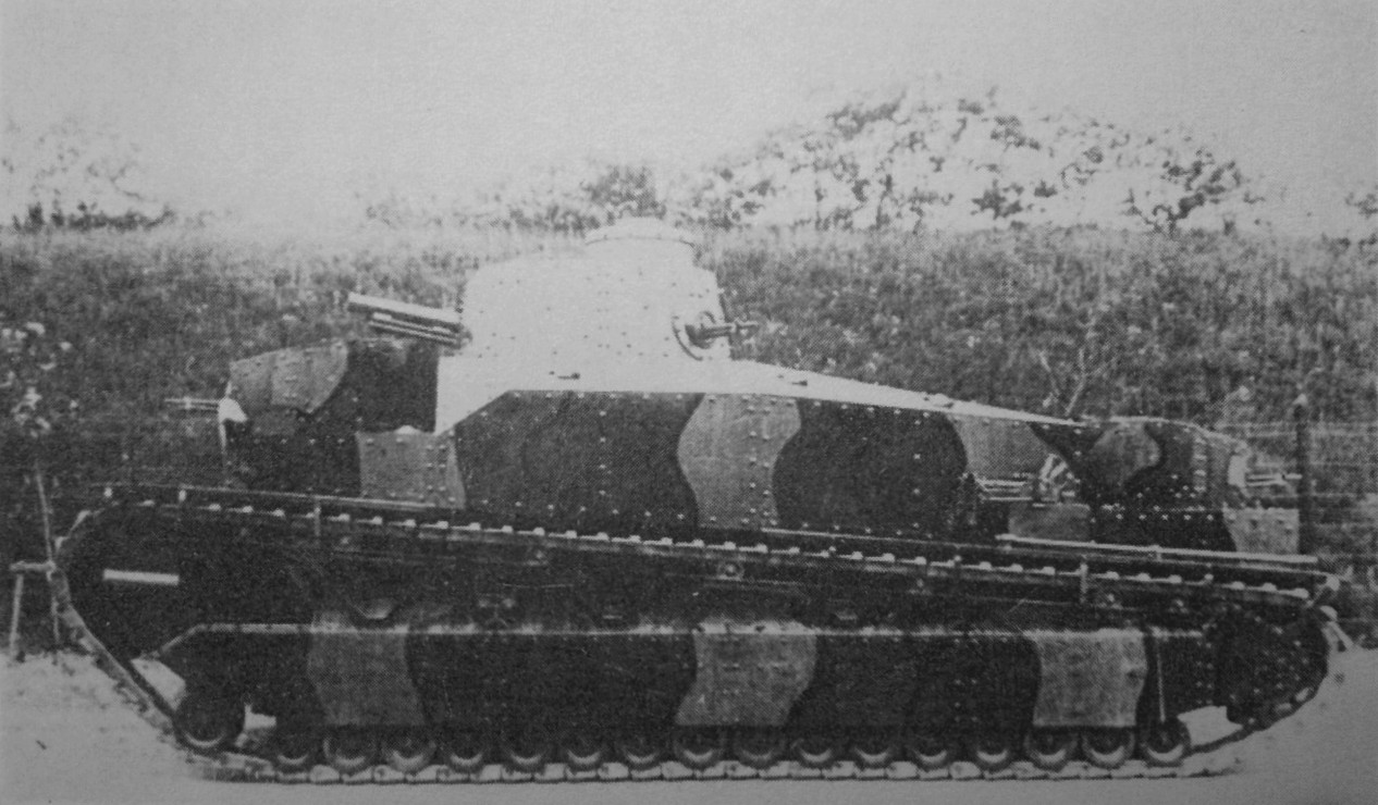 Imperial Japanese Army Experimental Type 91 Heavy Tank